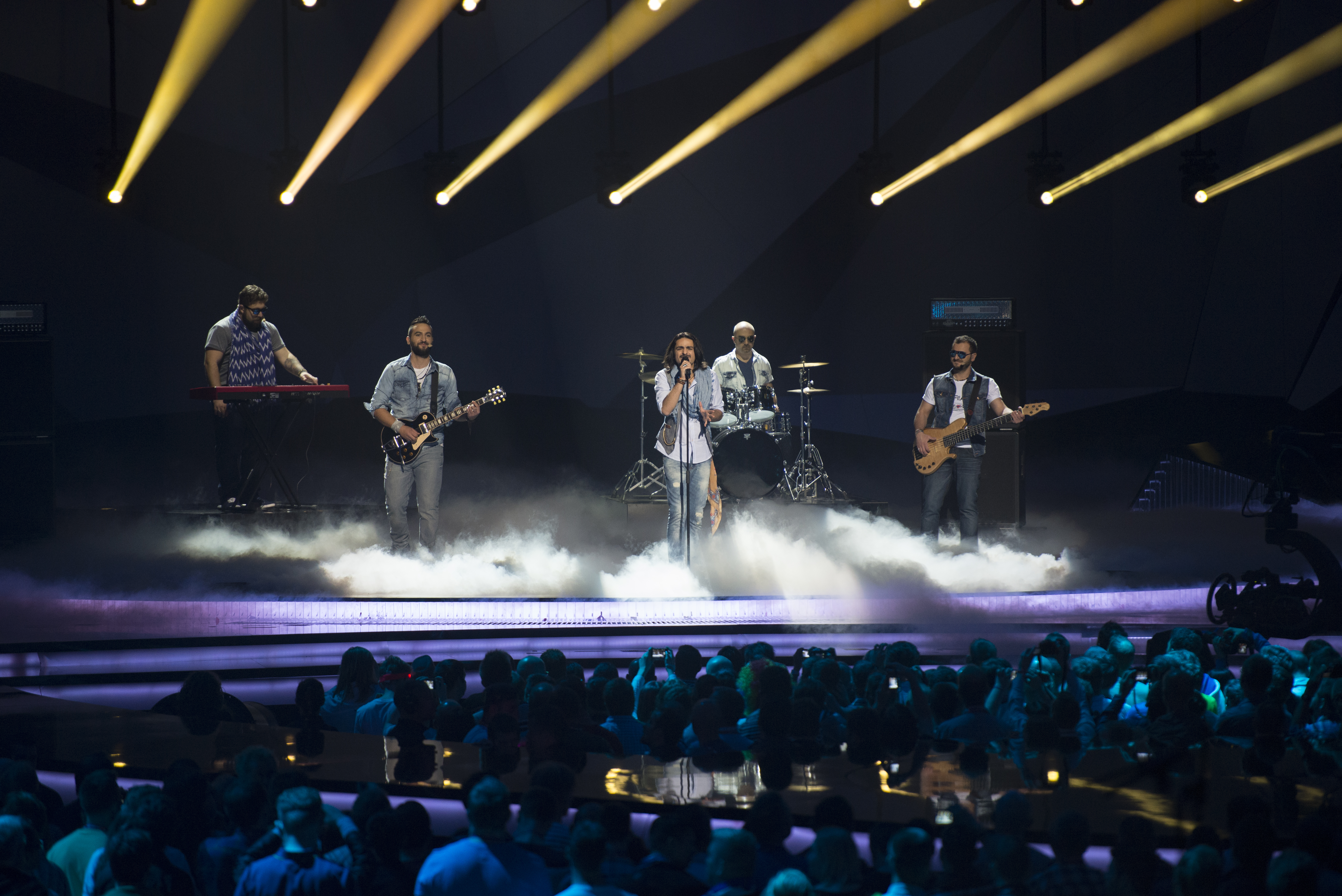 Dorians representing Armenia with the song "Lonely Planet" during the second dress rehearsal of the second semi final of the Eurovision Song Contest 2013 in Malmö. (Help translate this text)